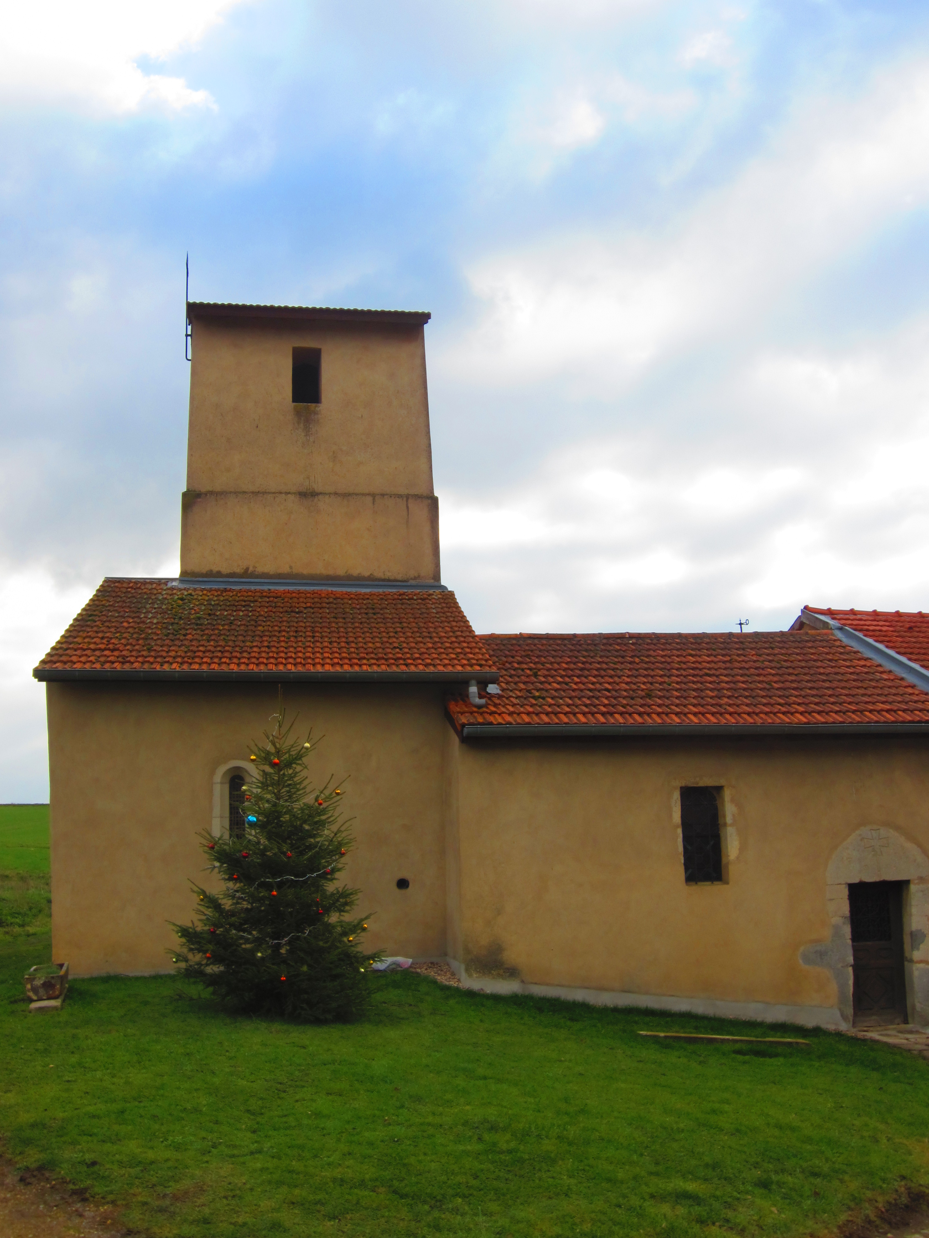 Vulmont church